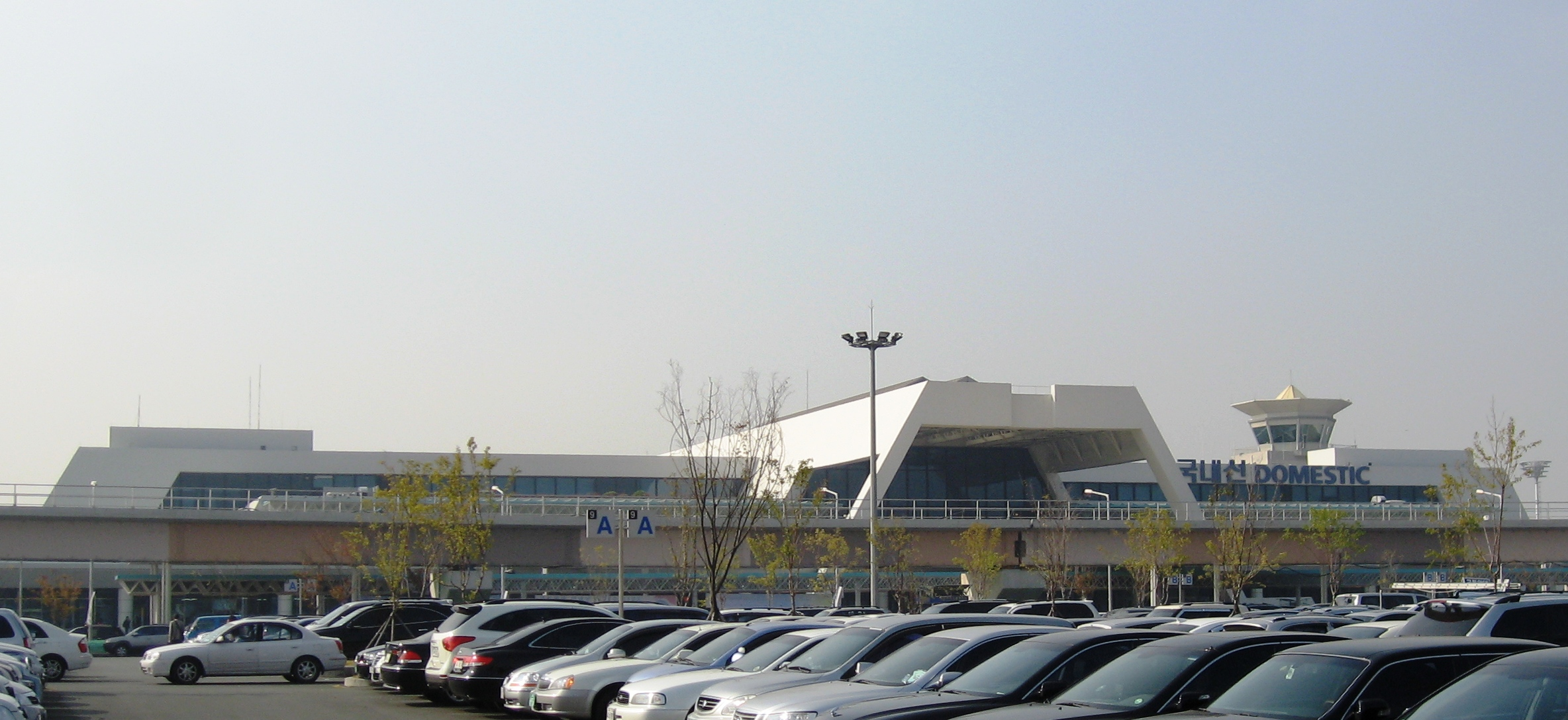 Gimhae International Airport Passenger Terminal(Domestic)